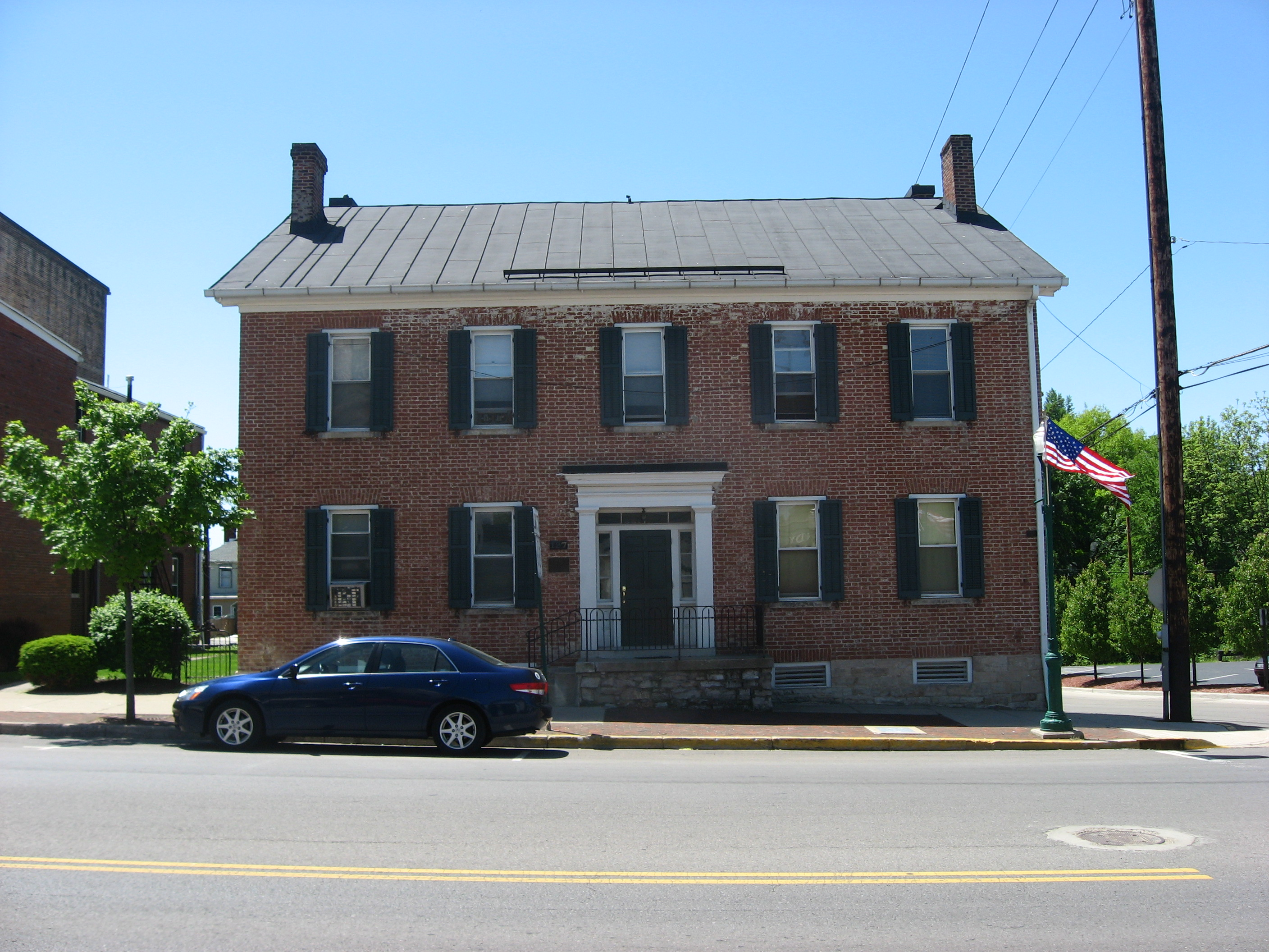 Front of the Dr. Adam Mosgrove House, located at 127 Miami Street (U.S. Route 36) in Urbana, Ohio, United States. Built in 1833, it is listed on the National Register of Historic Places and is within the bounds of the Register-listed Urbana Monument Square Historic District.